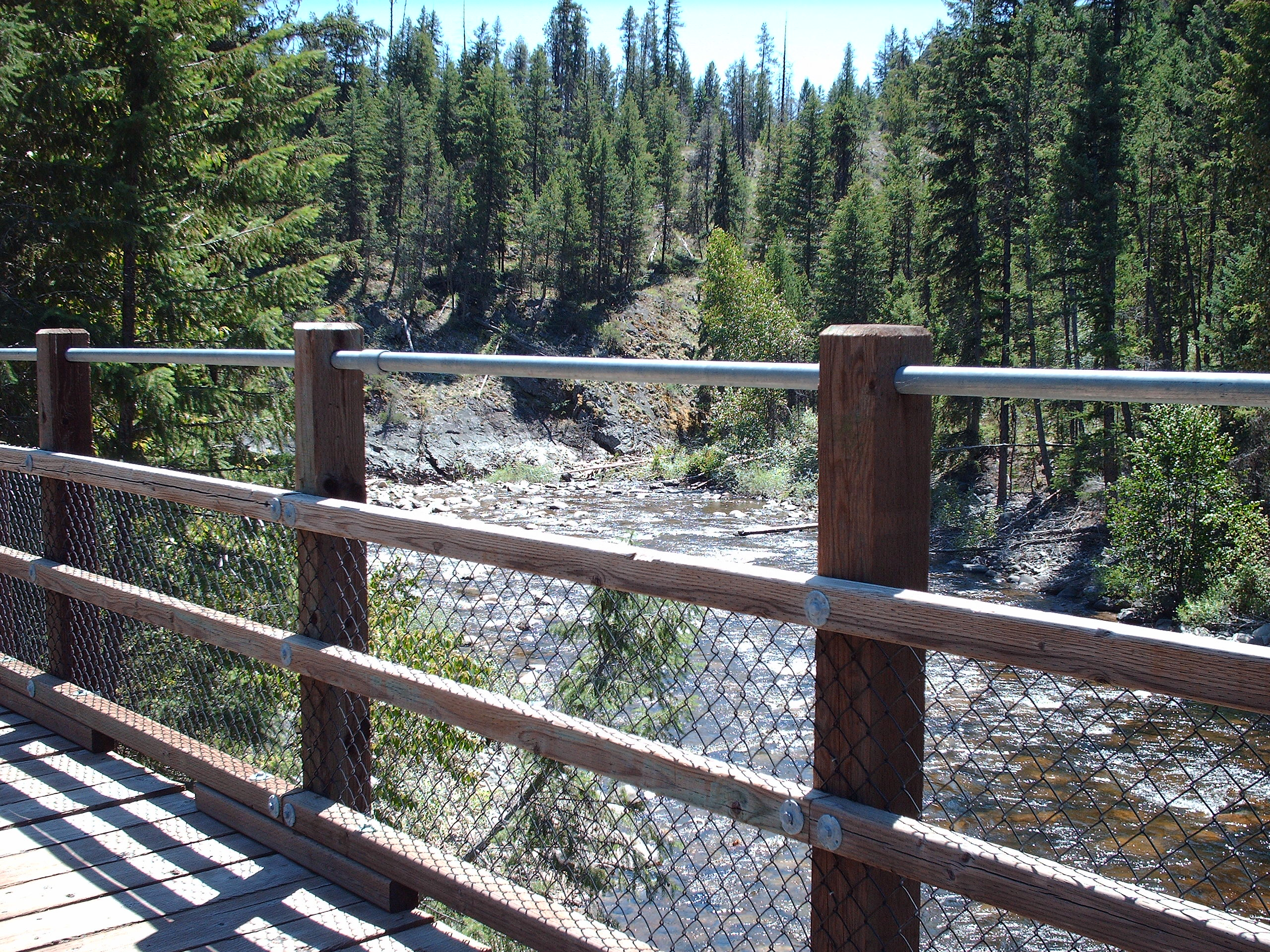 Bridge Over The KVR